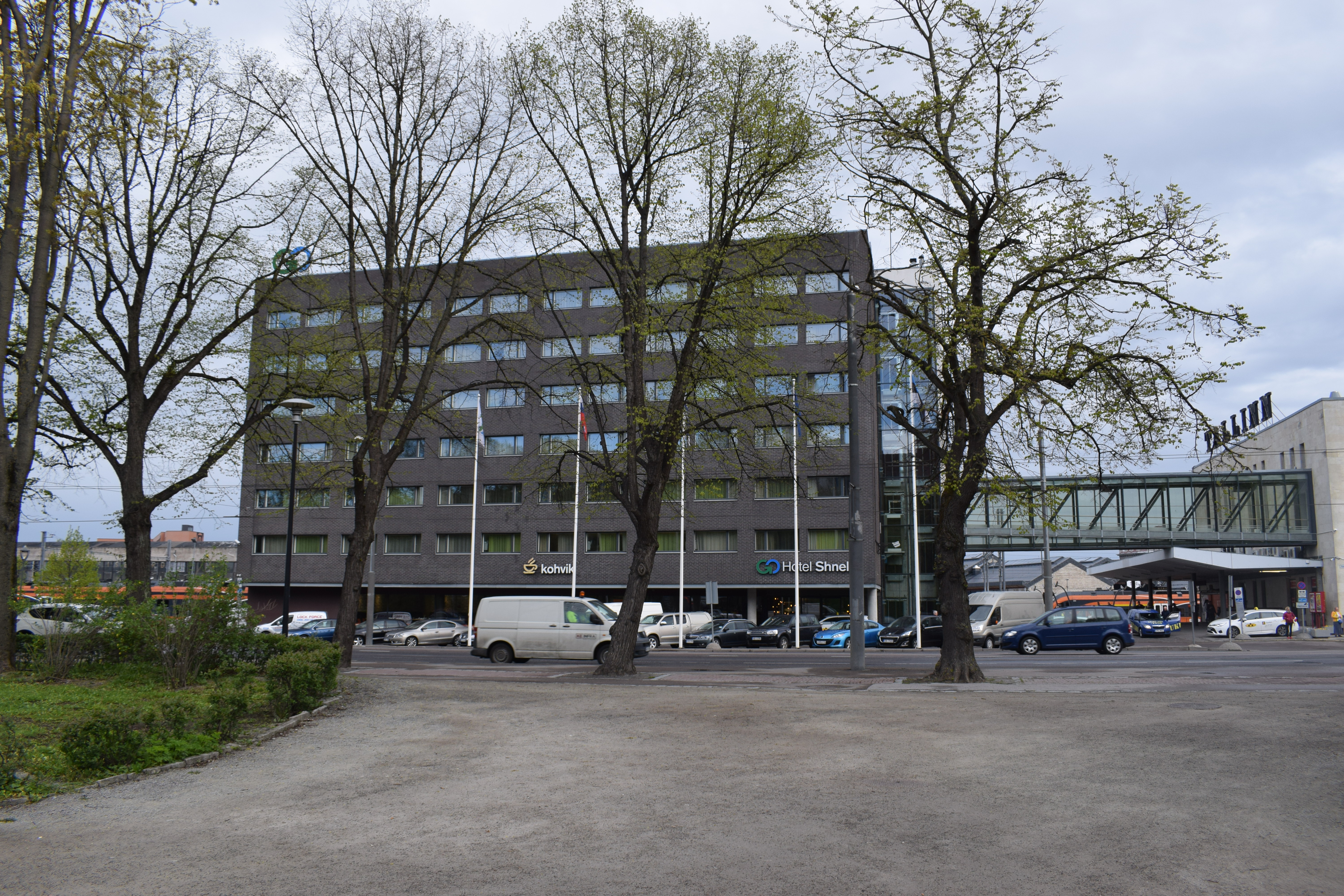 GO Hotel Snelli